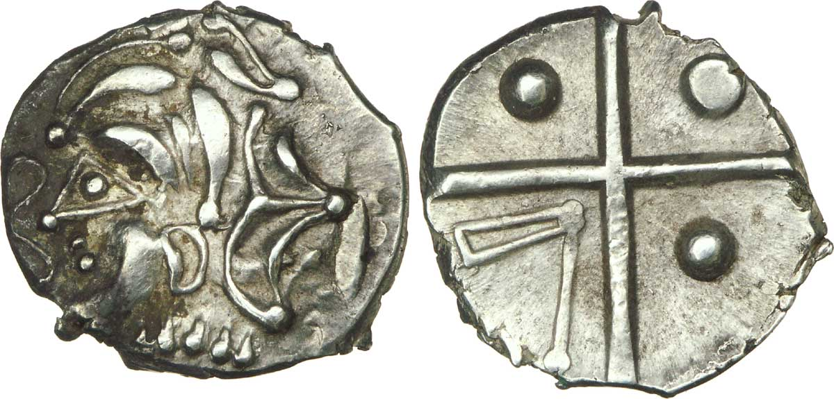 Drachme “à la tête triangulaire frappé par les Cadurques Date : IIe siècle av. J.-C Description avers : Tête triangulaire à gauche ; le nez figuré par un triangle, avec un point cerclé en guise d'œil ; le tout dans un entourage de bâtonnets et arcs de cercles bouletés et liés ; un collier de perles à la base du cou et un fleuron devant le visage .